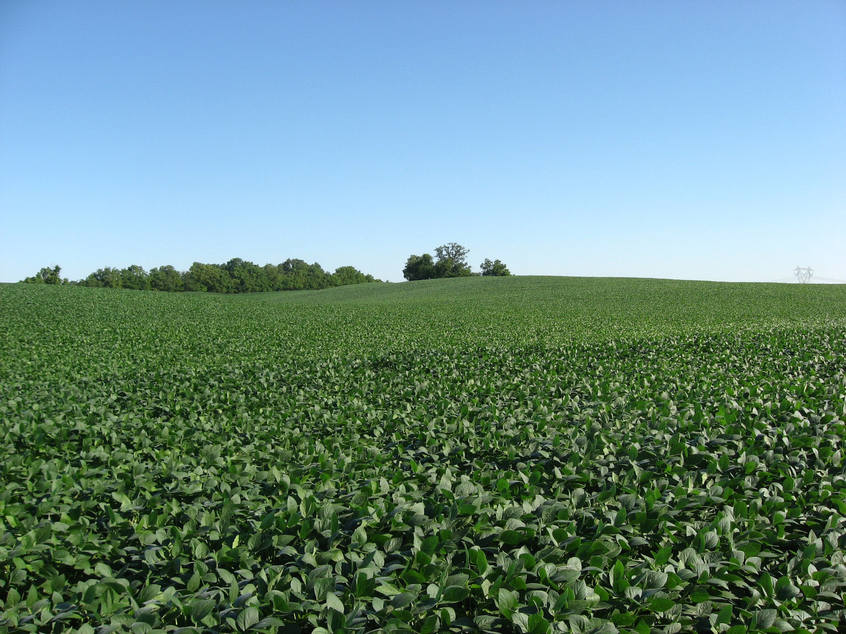 Soybean fields at Applethorpe Farm, located at 292 Whissler Road north of Hallsville in Colerain Township, Ross County, Ohio, United States.